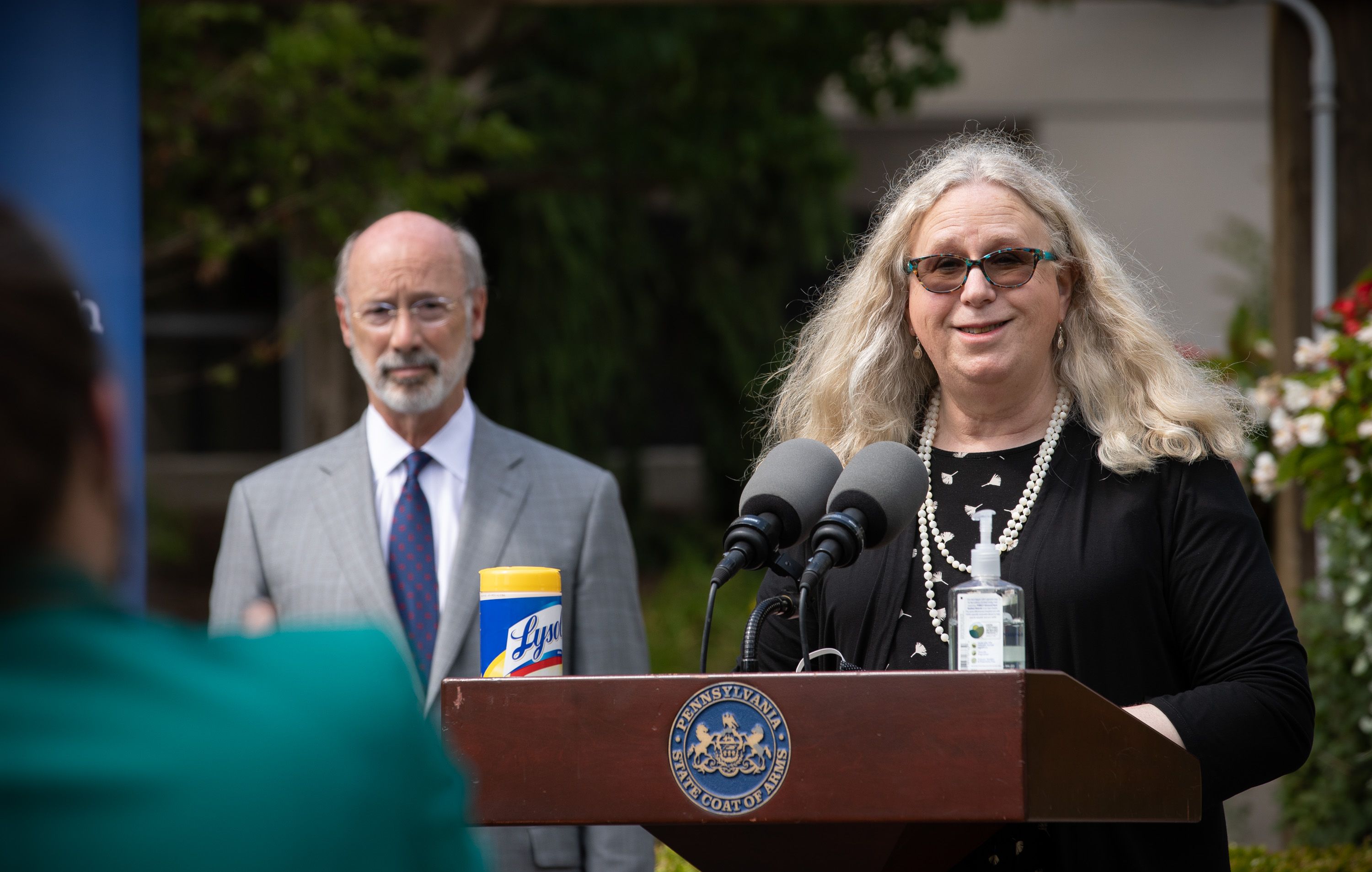 Sec. of Health Dr. Rachel Levine answering questions from the press during her visit to Milton S. Hershey Medical Center. As the commonwealth continues its measured, phased reopening and COVID-19 case counts continue to decline, Governor Tom Wolf visited Penn State Milton S. Hershey Medical Center today to thank staff and learn more about how the facility is handling the pandemic and preparing for a possible resurgence in the fall. Harrisburg, PA – June 24, 2020